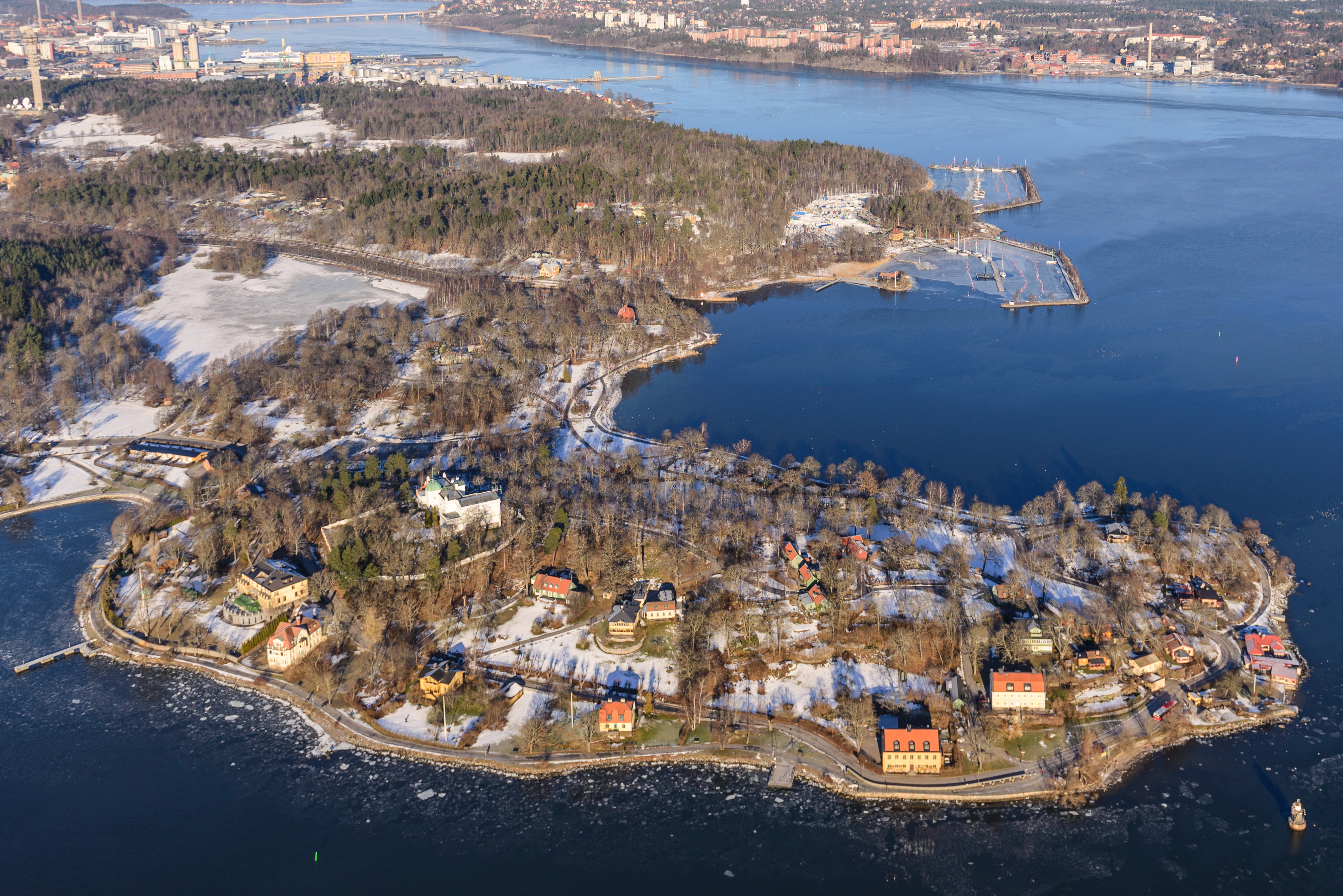 Blockhusudden.